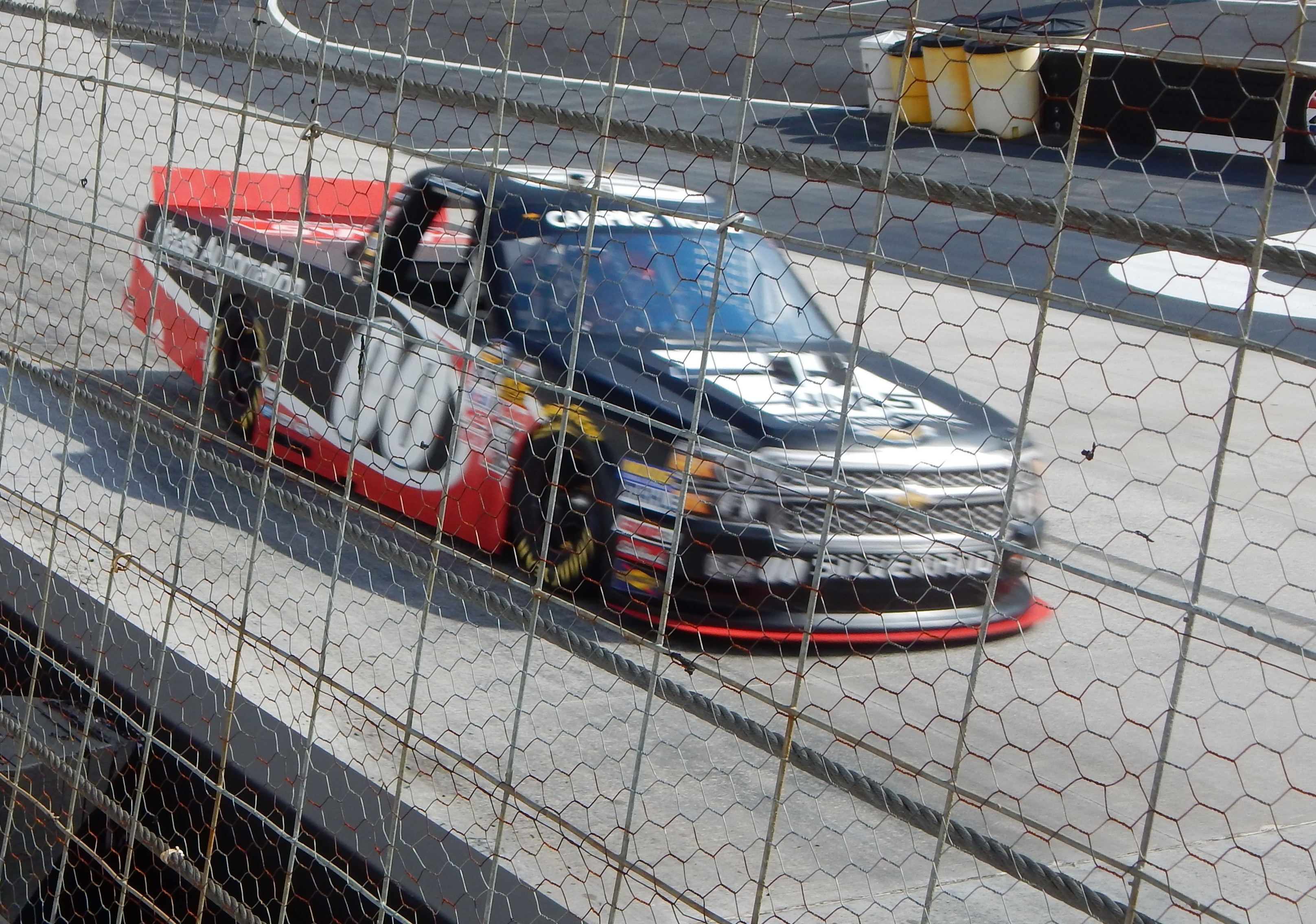 Cole Custer qualified fifth for that night's UNOH 200 at Bristol Motor Speedway.